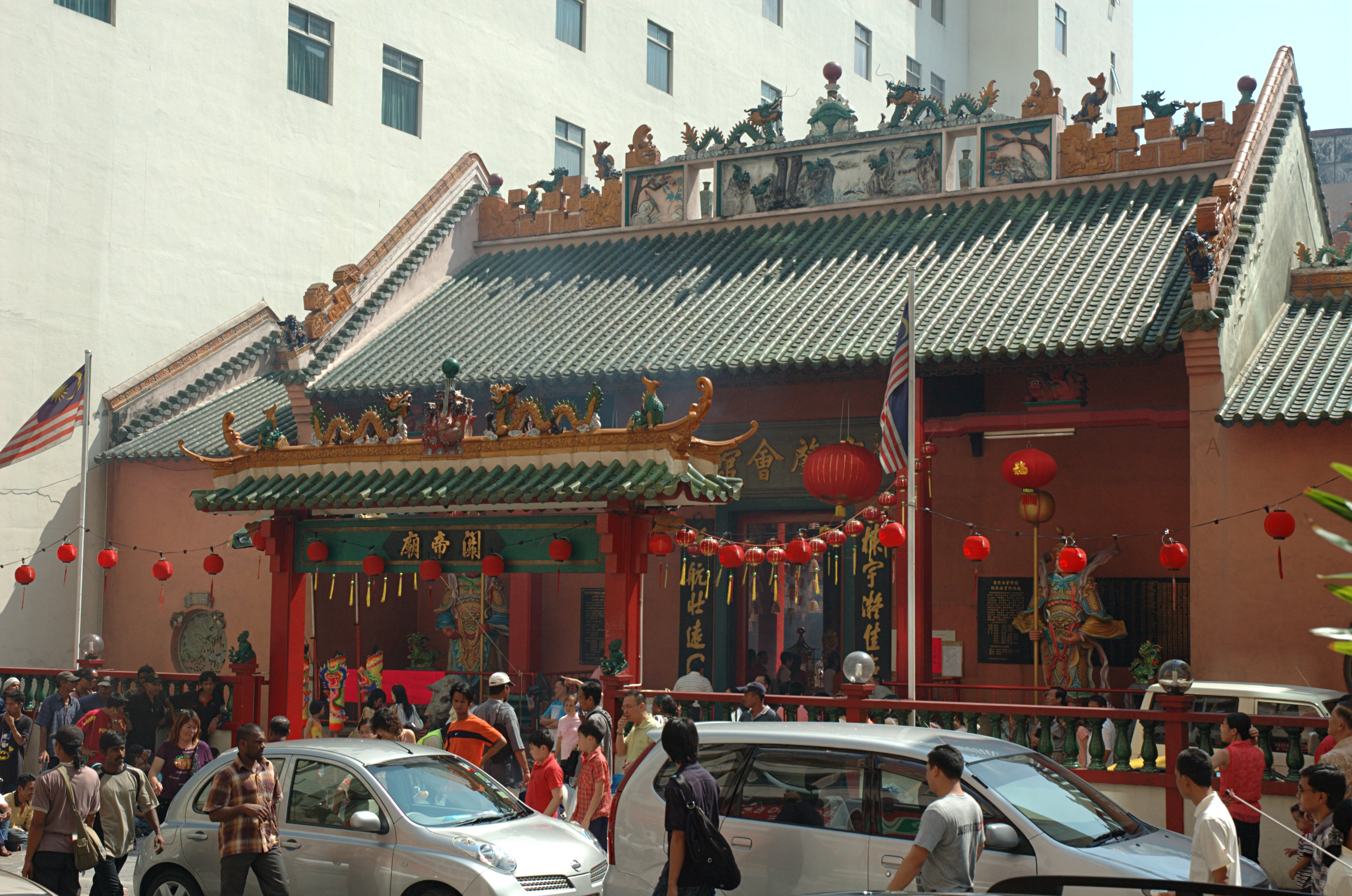 Temple of Kuan Ti / Kwan Ti / Guan Di / Guan Yu with decorations for Chinese New Year. Jalan Tun H.S. Lee, Kuala Lumpur, Malaysia.